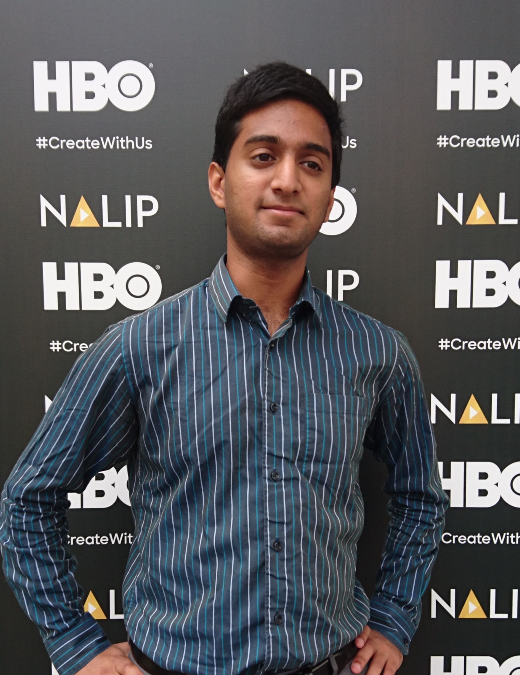 Rohit Iyengar at NALIP Media Summit 2016